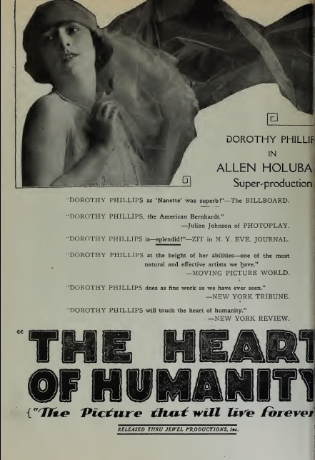 ad for The Heart of Humanity (1918) directed by Allan Holubar, with Dorothy Phillips